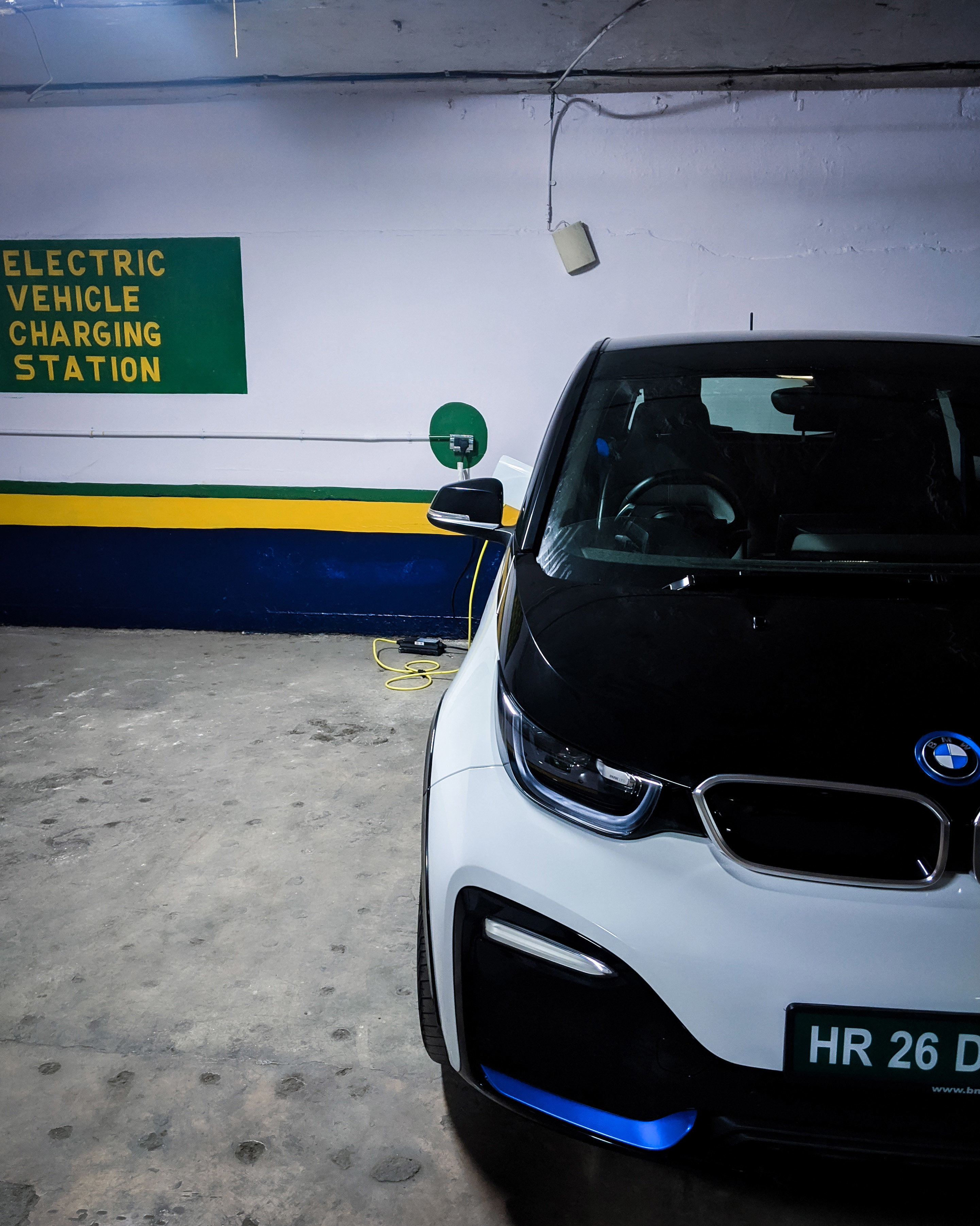 Electric charging points in Hyatt Regency Delhi